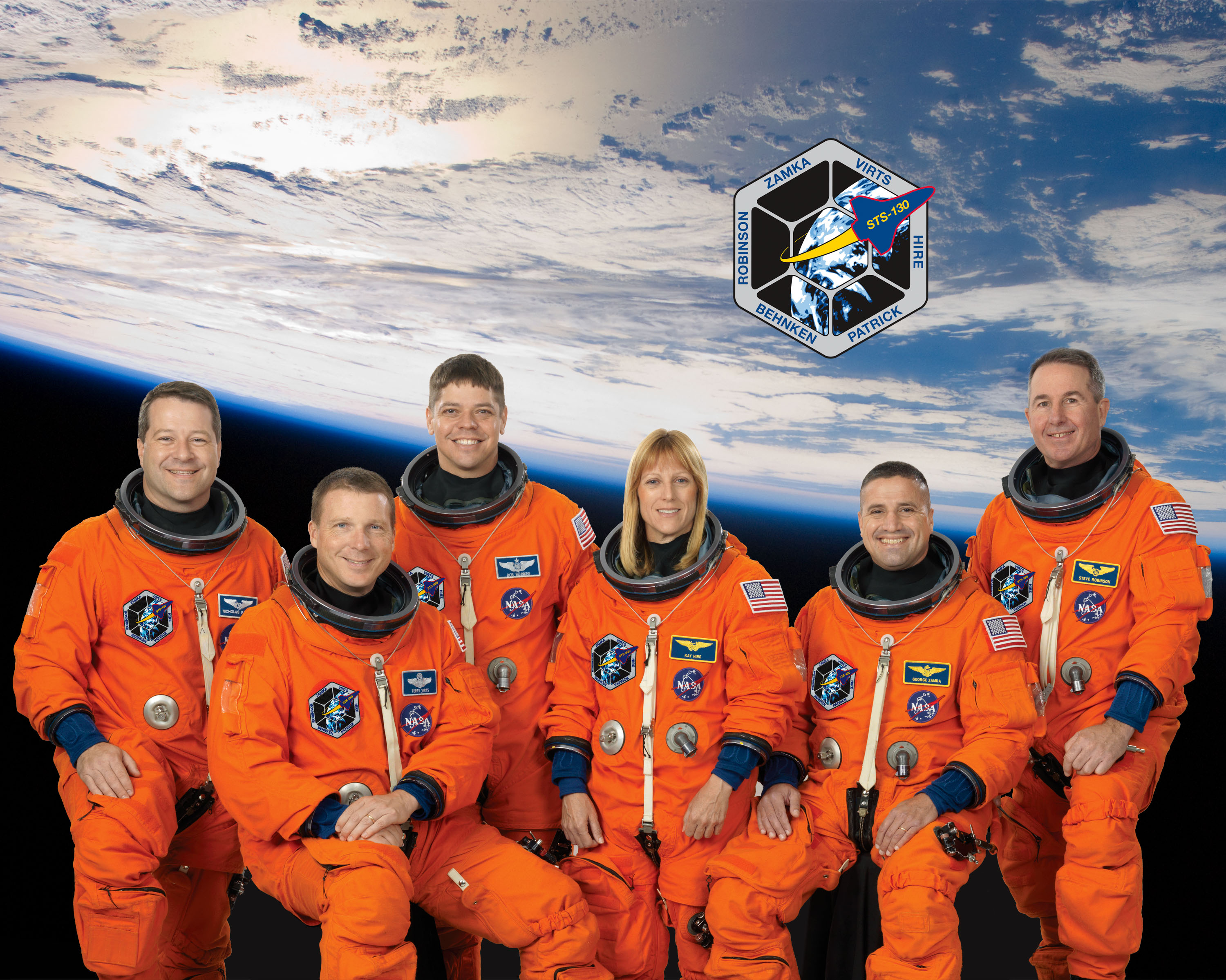 Attired in training versions of their shuttle launch and entry suits, these six astronauts take a break from training to pose for the STS-130 crew portrait. Seated are astronauts George Zamka (right), commander; and Terry Virts, pilot. From the left (standing) are astronaut Nicholas Patrick, Robert Behnken, Kathryn Hire and Stephen Robinson, all mission specialists.